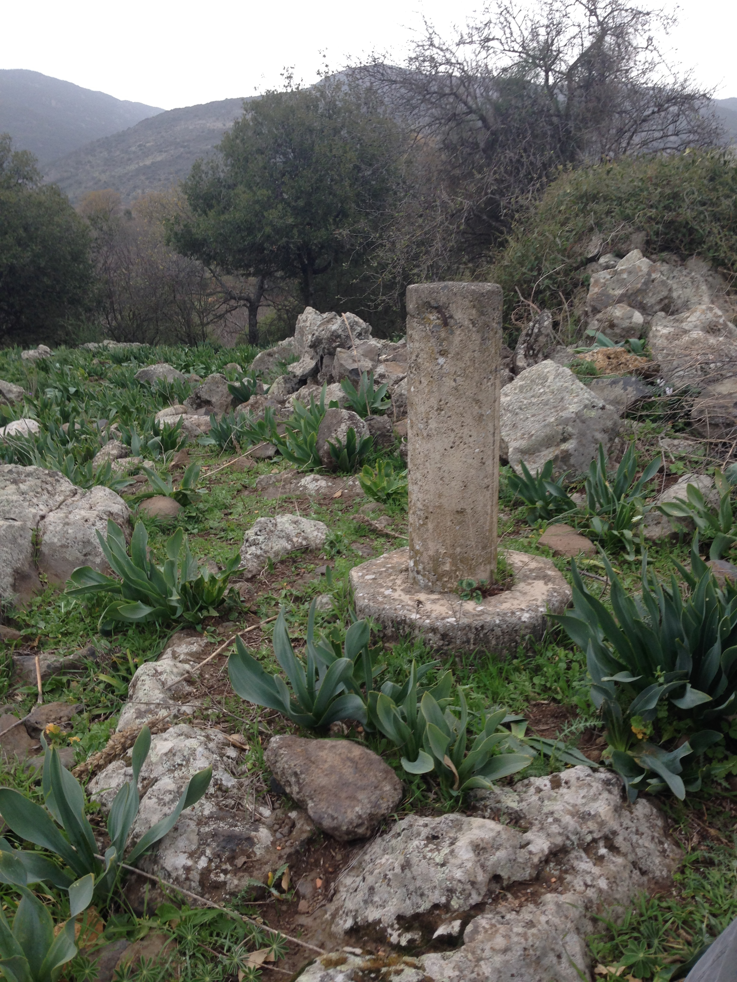 Border stone (number 41), located on the northern slopes of the Israeli Golan heights. This Border stone was placed by the British (on 1924?), to mark the border between British Mandatory Palestine and the French Mandatory Syria.